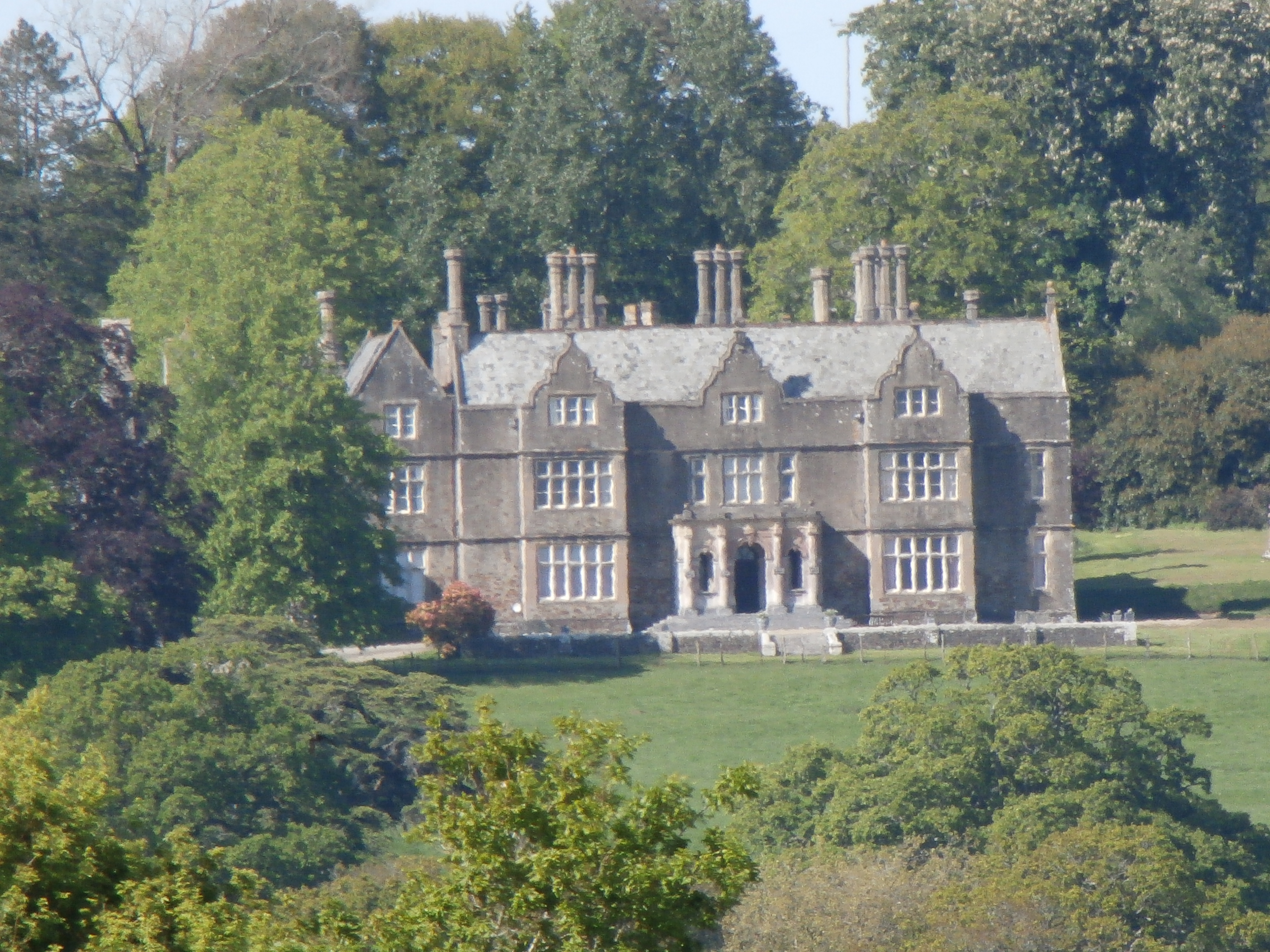 Hall, Bishop's Tawton, Devon, viewed from south at Fishleigh across the valley of the River Taw